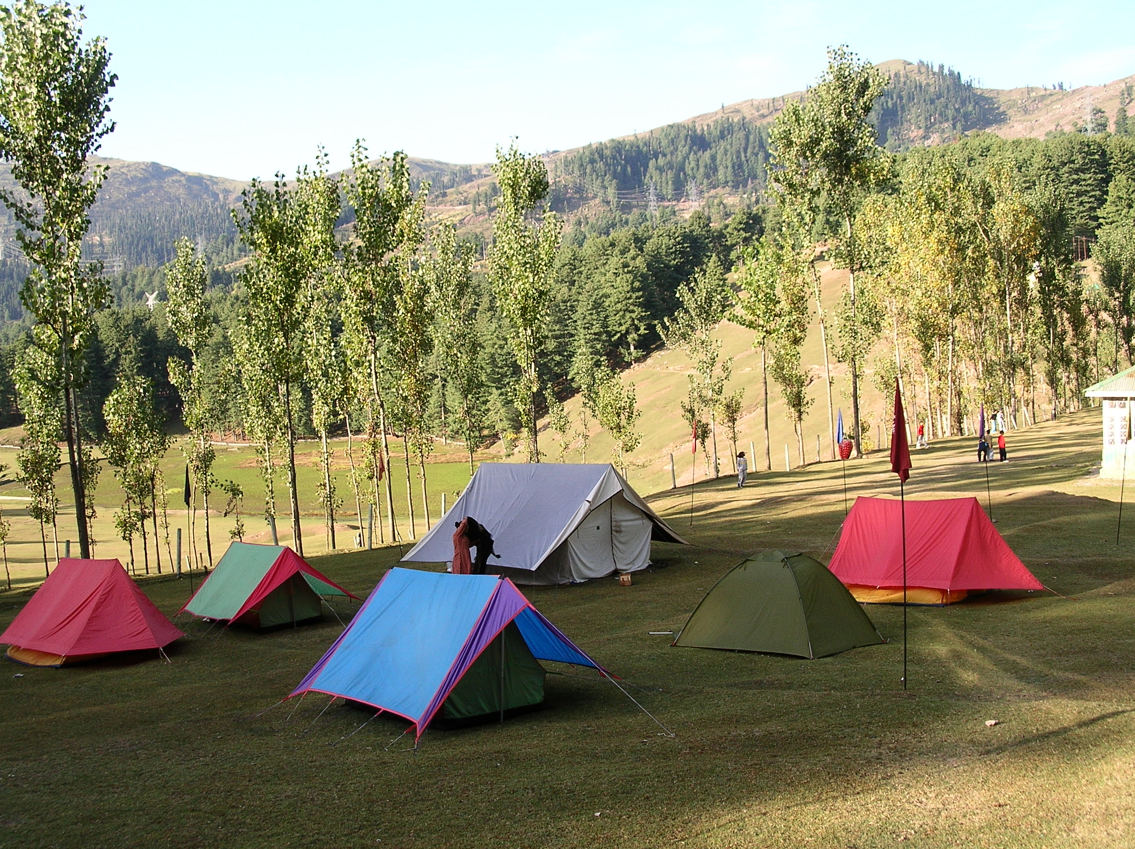 Author-Dr Thakur Naveen Kotwal Wilderness adventure Camp at Sanasar.